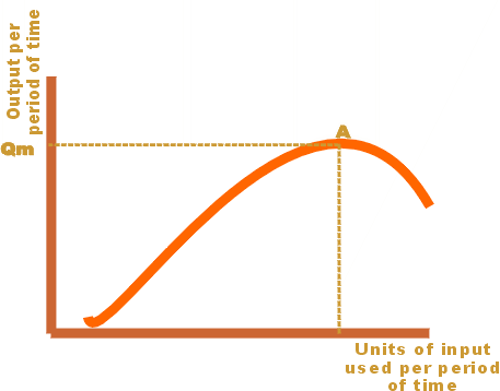 Total product curve small